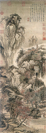 Mountains, Streams, and Autumn Trees, by Qing Dynasty Chinese artist Wang Hui.